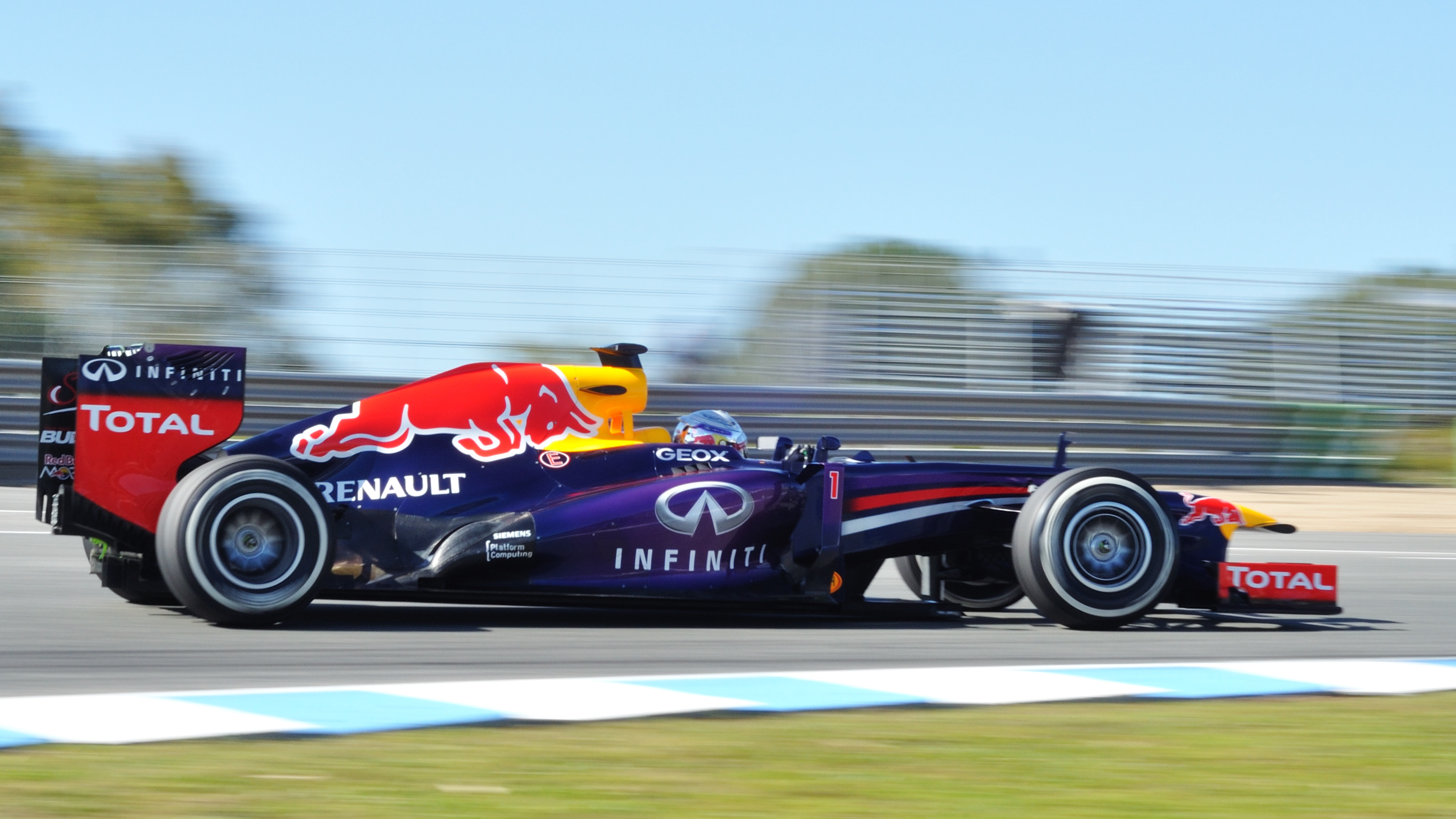 Triple Formula 1 World Champion Sebastian Vettel tests his new Red Bull Racing RB9 at the Circuit de Jerez on day four of the first 2013 pre-season test.